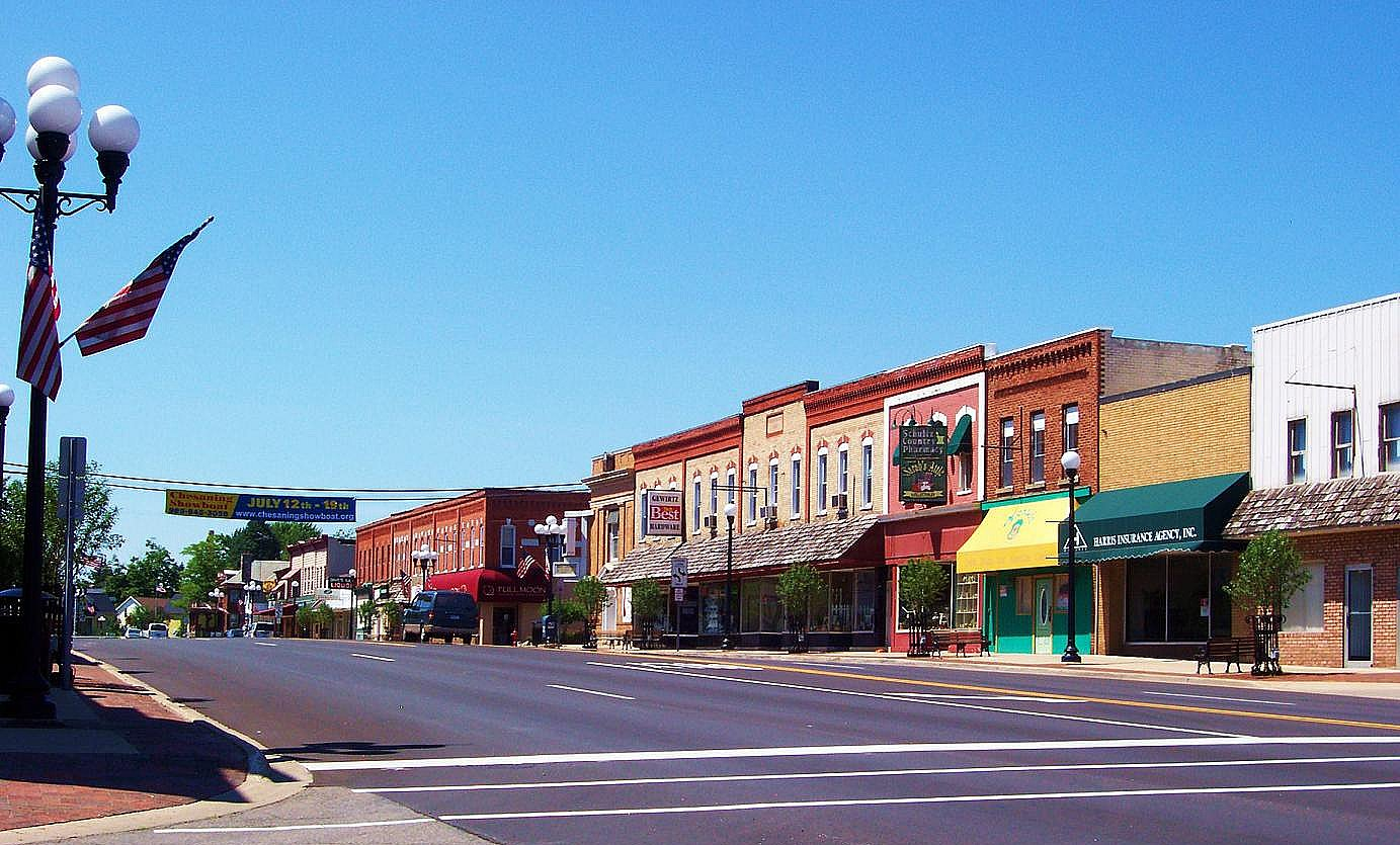 Downtown Chesaning, Michigan.